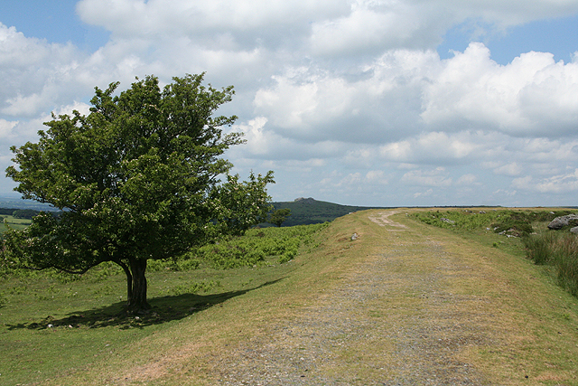 Walkhampton: by Ingra Tor On the formation of the old Princetown branch railway – here the route turns east to loop round Ingra Tor